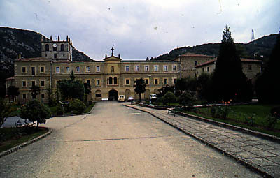 Saint Mary of Bujedo monastery